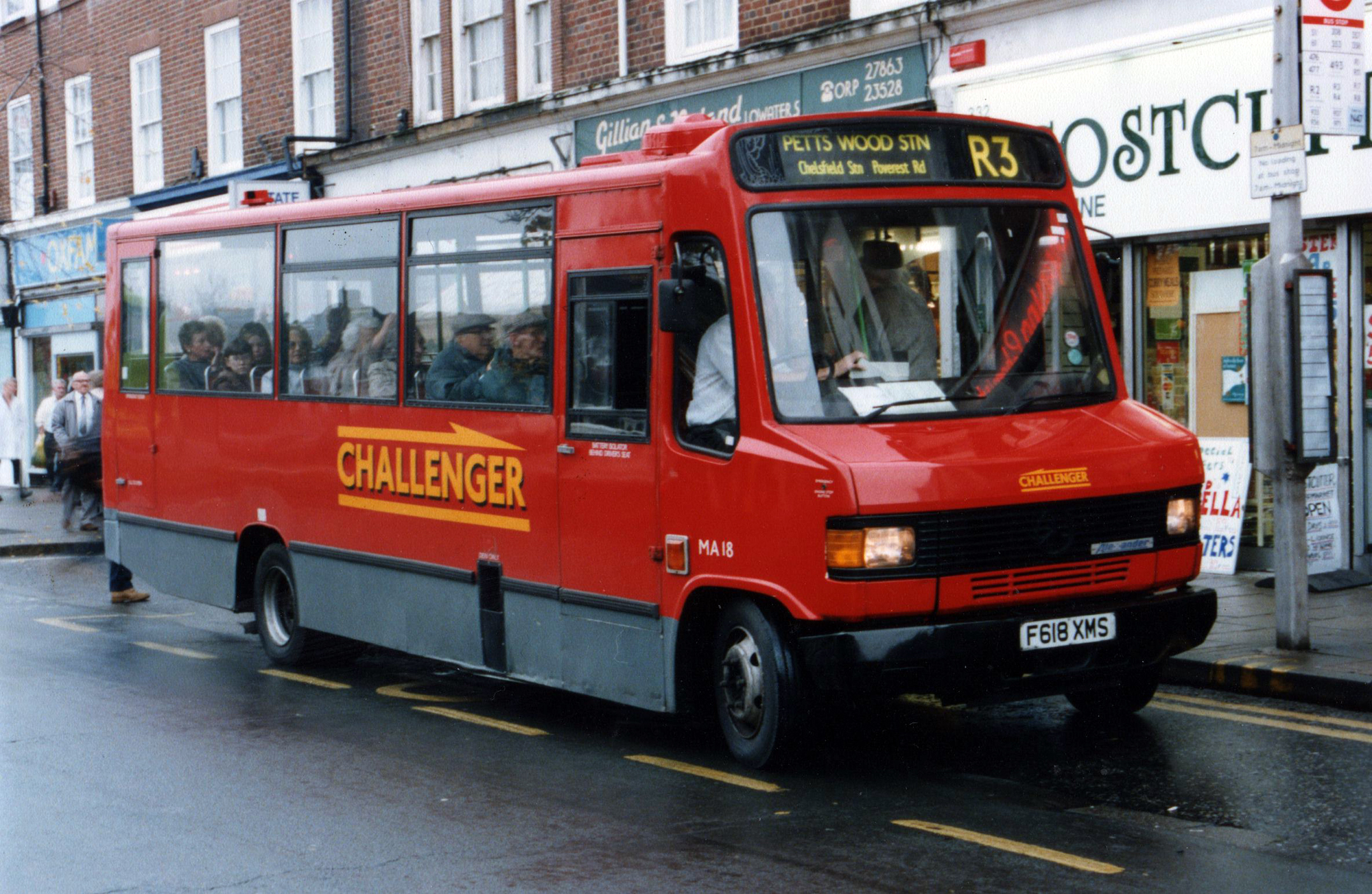 CENTREWEST Challenger - F618 XMS - Route R3 - ORPINGTON War Memorial jeff lloyd